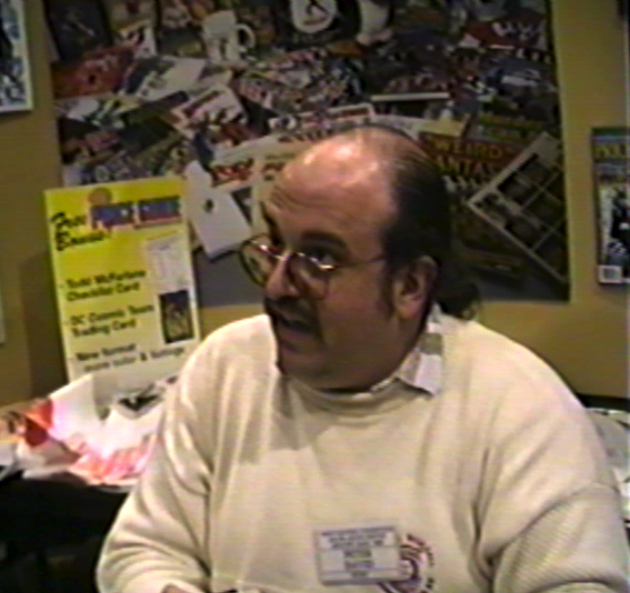 Peter David at a comics convention in the early 1990s video still